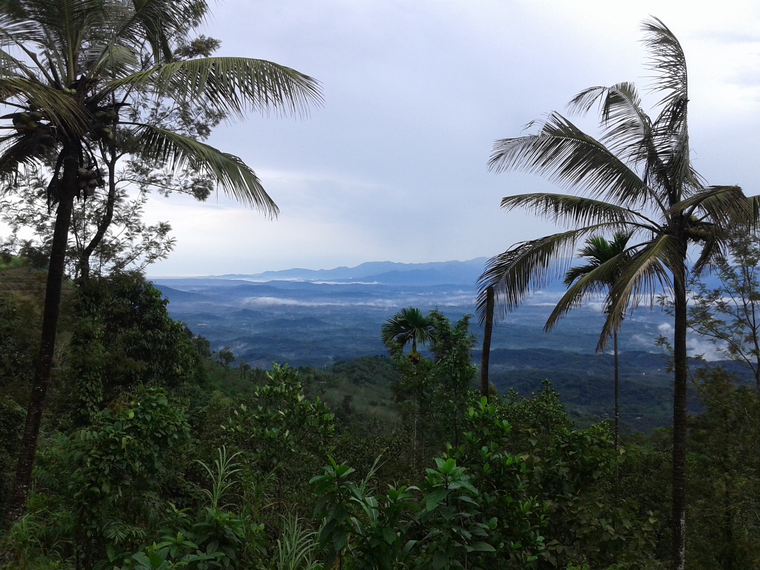 Elapeedika